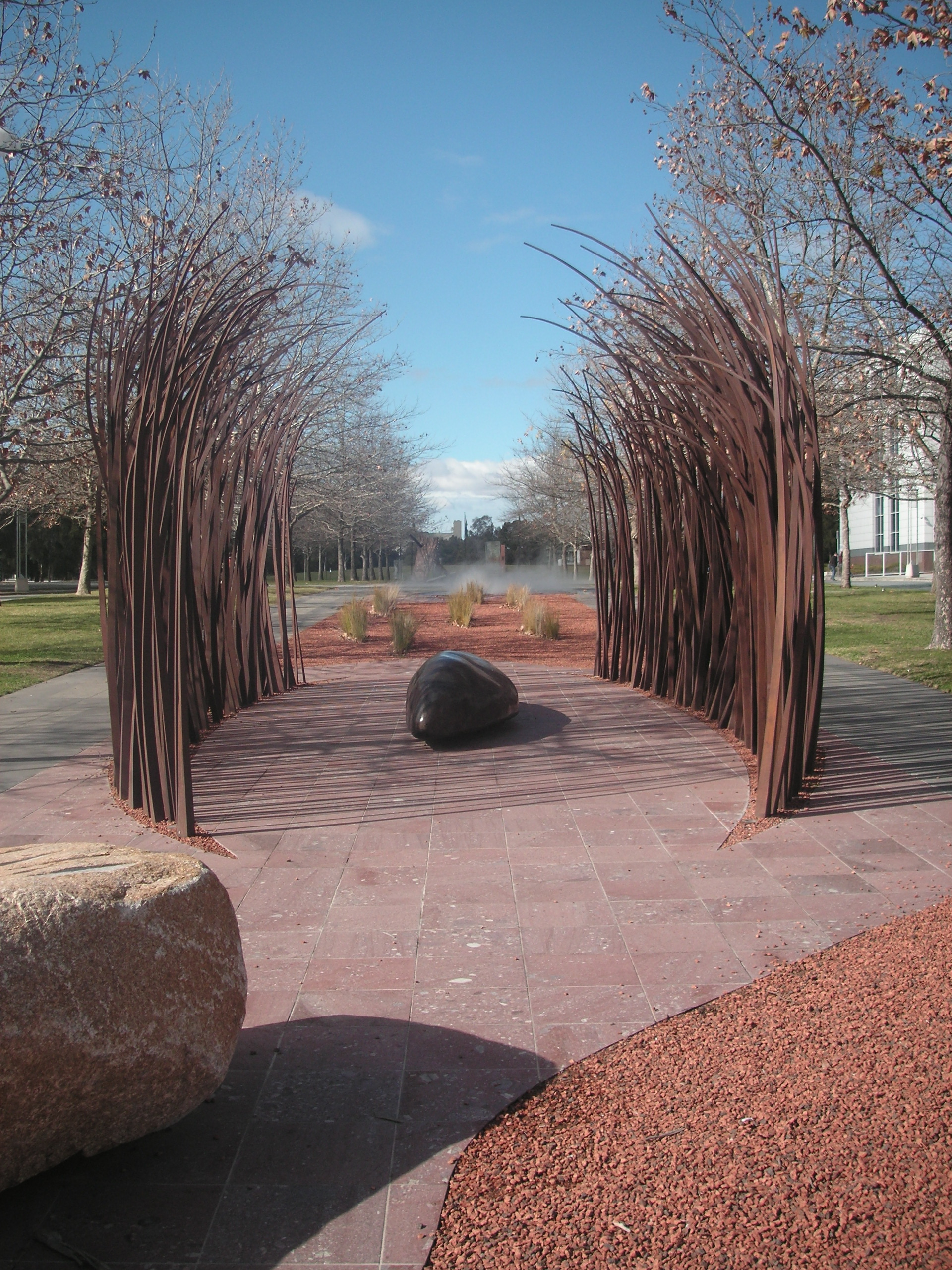 Sculpture Fire and Water (2007) by Judy Watson at Reconciliation Place in Canberra